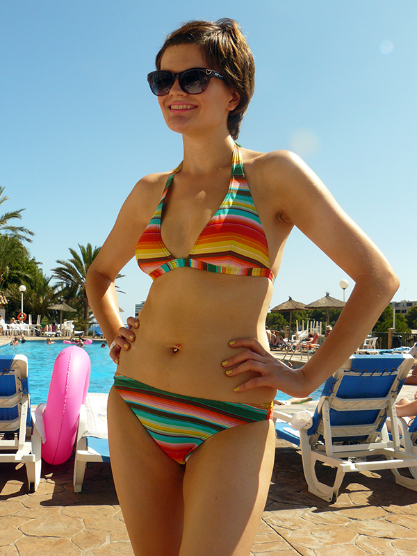 Sunshine bikini. Becky License on Flickr (2011-01-24): CC-BY-SA-2.0 Flickr tags: majorca, mallorca, holiday, 2009, spain, bikini